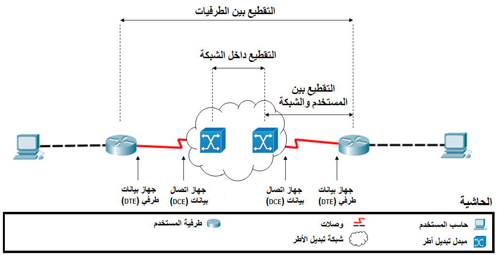 Fragmentation types in a frame relay network (1) User-to-Network Interface (UNI) fragmentation (2) Network-to-Network Interface fragmentation (3) End-to-End fragmentation.